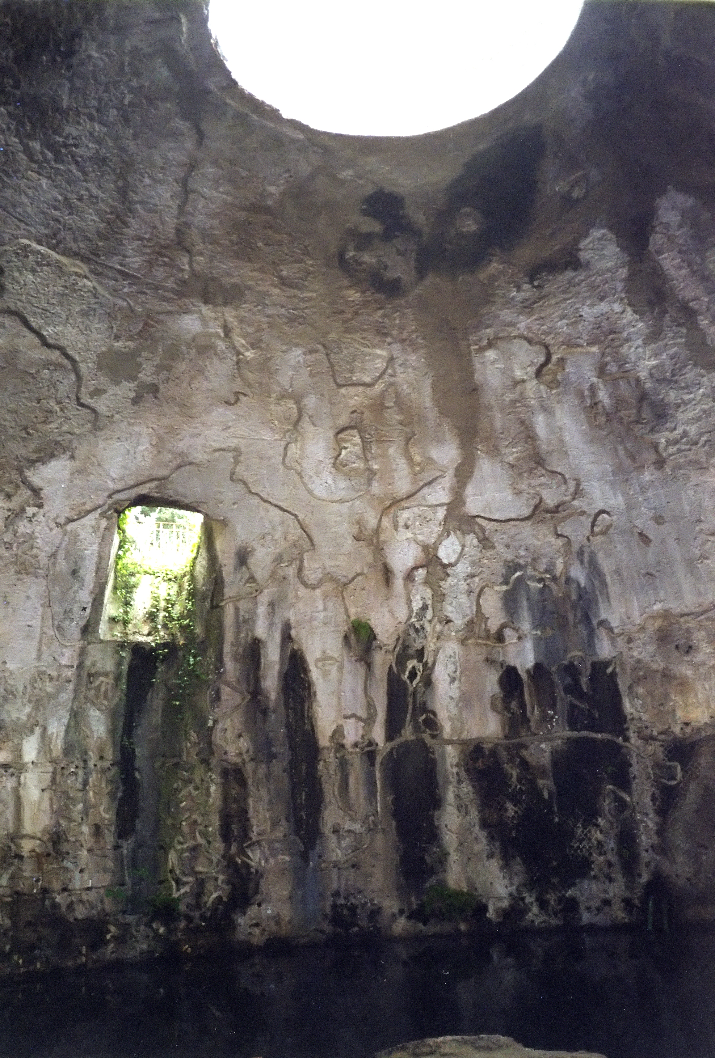 The "Tempio di Mercurio" at Baiae was the frigidarium swimming pool of a large bath. It is believed to be the oldest example of a large dome in history.